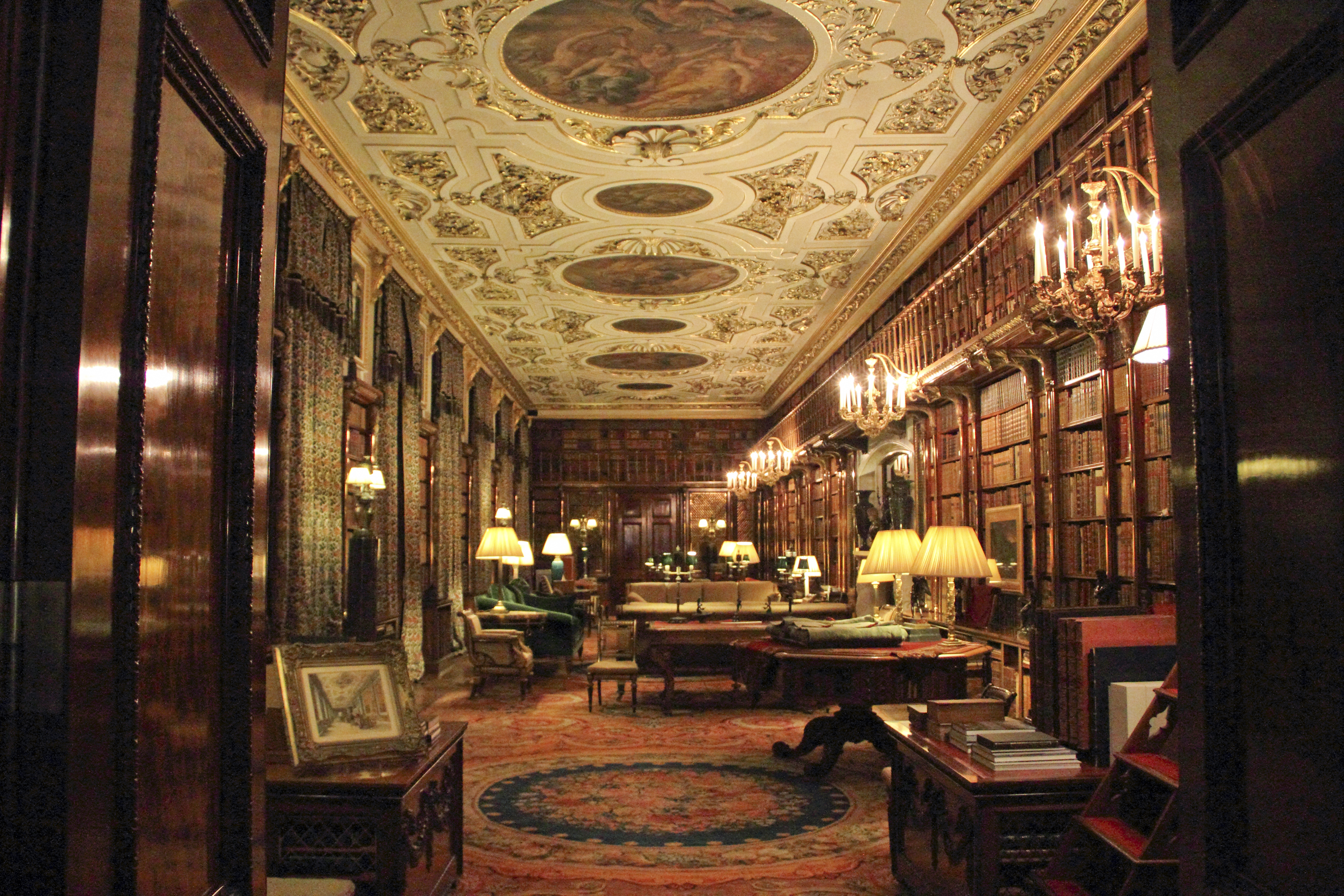 Here is a photograph of a room at Chatsworth House. Located in Derbyshire, England, UK. You CAN view and download the full 18megapixel image in Flickr, check out the other sizes when viewing**